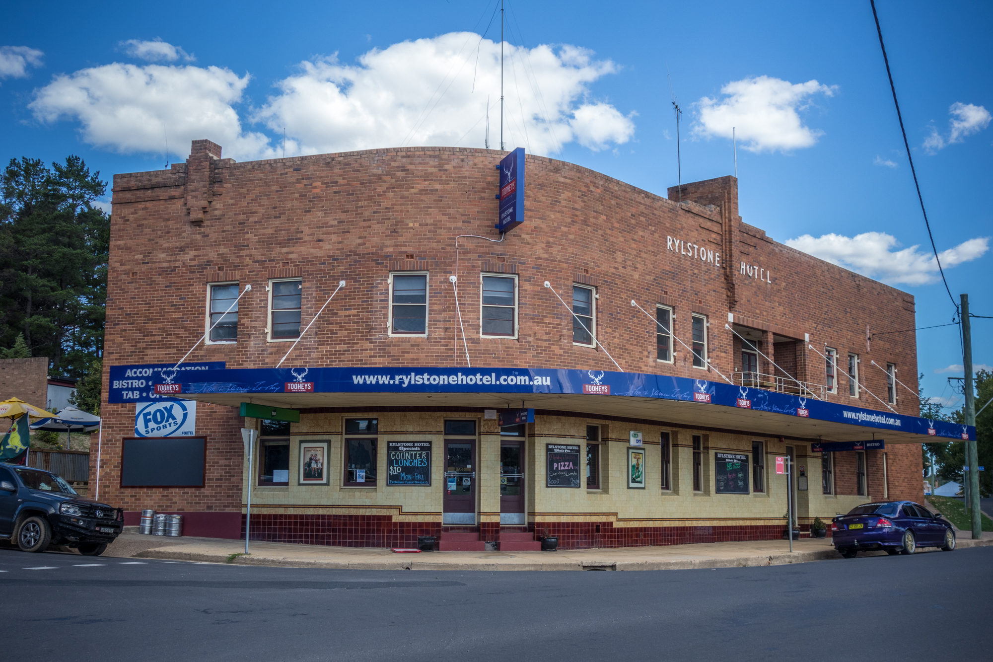 The Rylstone Hotel, Rylstone, NSW, Australia